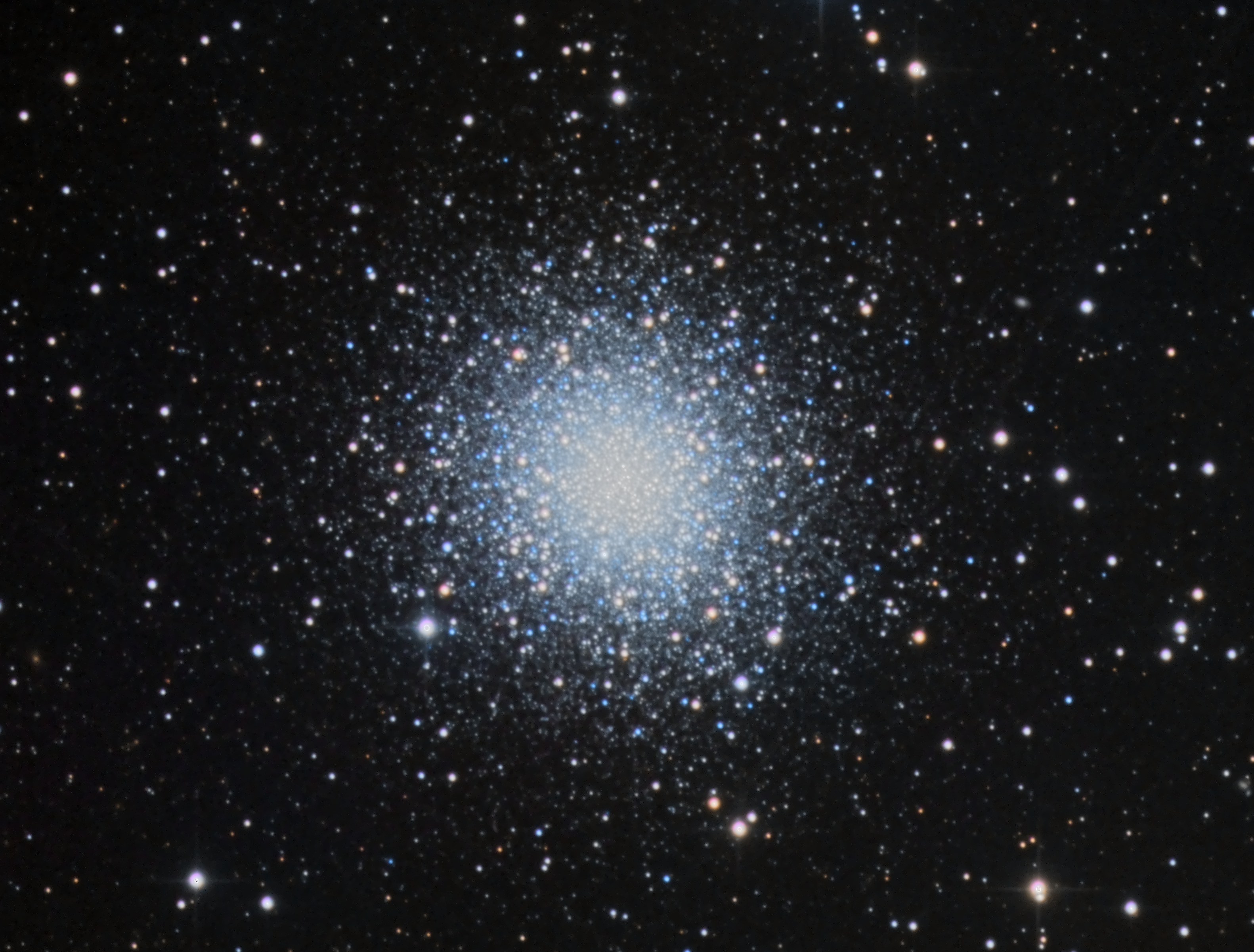 Messier 2 Globular Cluster imaged from Talent, OR.